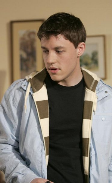 Philip Lindholm